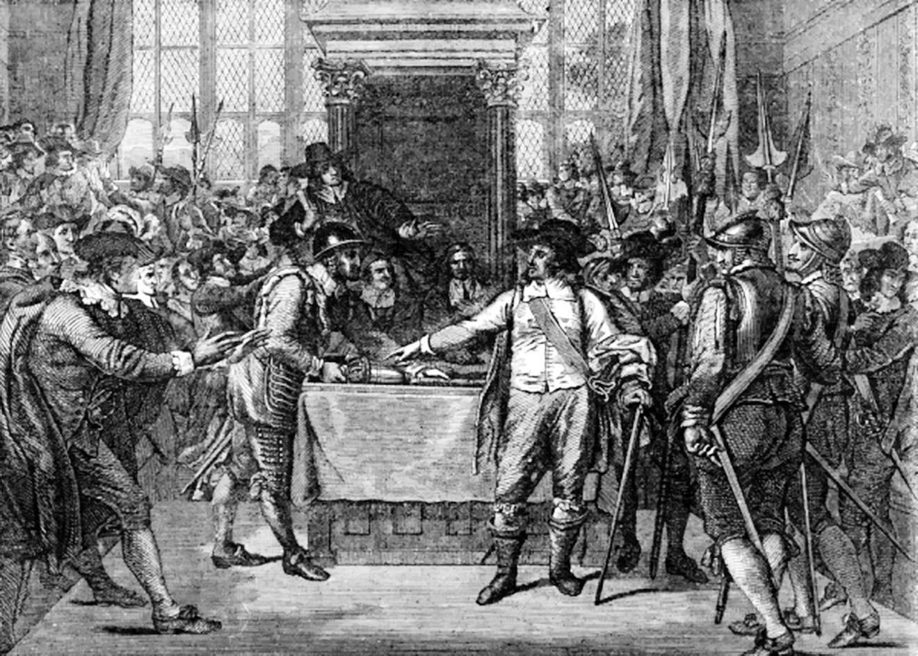 The title is the same as the image caption above and in "Cassell's Illustrated History of England, Volume 3". The number shown is the page number. Follow the image link to the full book vol.3.